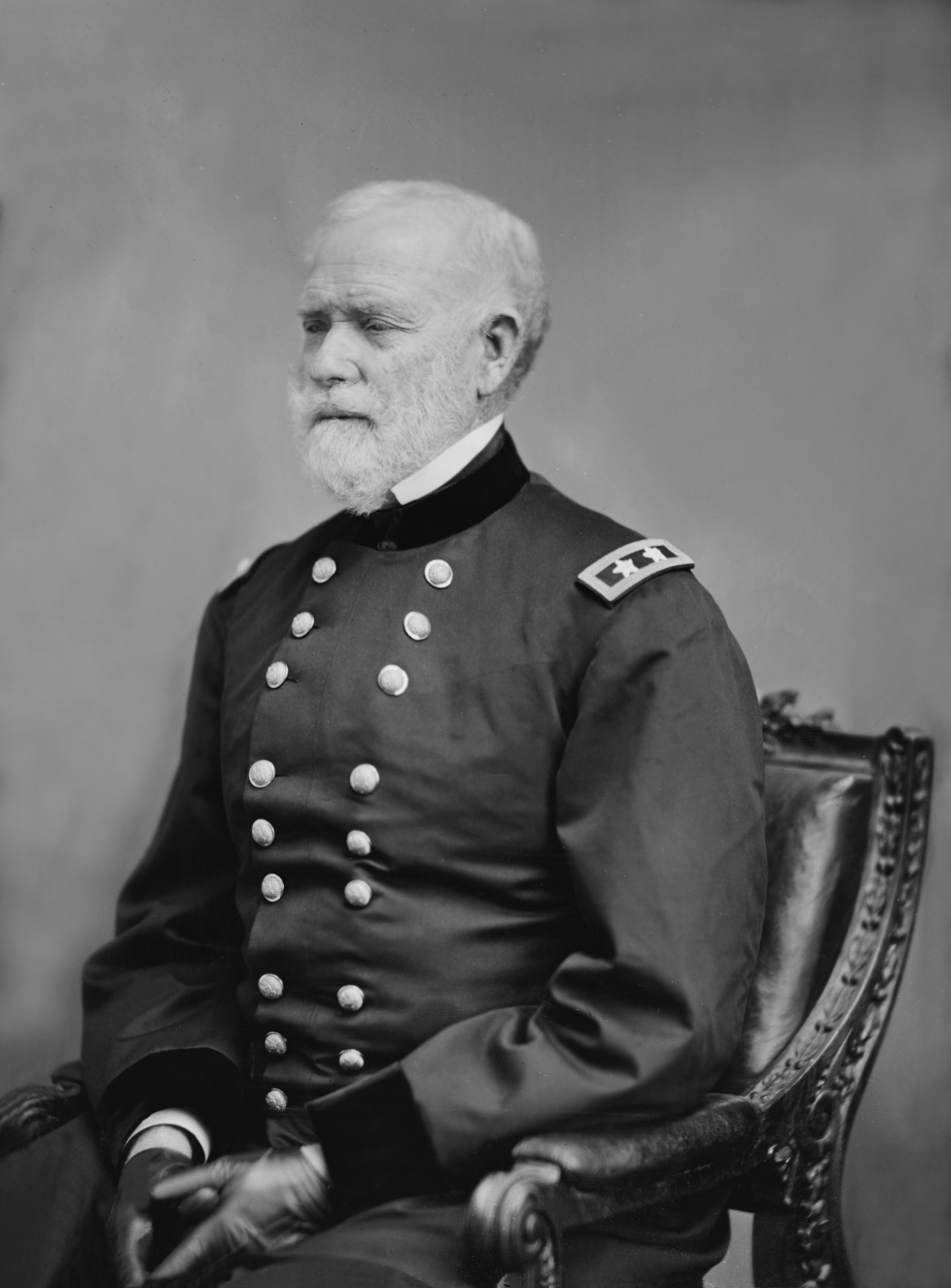 Downloaded from TITLE: Maj. Gen. William Selby Harney (1800 - 1889) CALL NUMBER: LC-B8155- 7928 B[P&P] REPRODUCTION NUMBER: LC-DIG-cwpb-04405 (digital file from original neg.) RIGHTS INFORMATION: No known restrictions on publication. MEDIUM: 1 negative : glass, wet collodion. CREATED/PUBLISHED: [between 1860 and 1870] CREATOR: Brady & Co. (Washington, D.C.), photographer. NOTES: Title from unverified information on negative sleeve. Annotation from negative, scratched on emulsion: 928 Duplicate. Forms part of Civil War glass negative collection (Library of Congress).